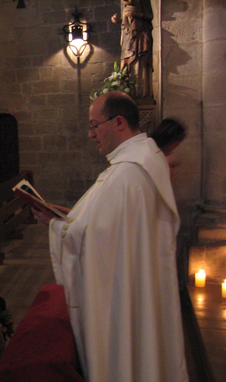 Javier Velasco Yeregui officiating a marriage in the Church of San Bartolomé (Logroño, Spain).